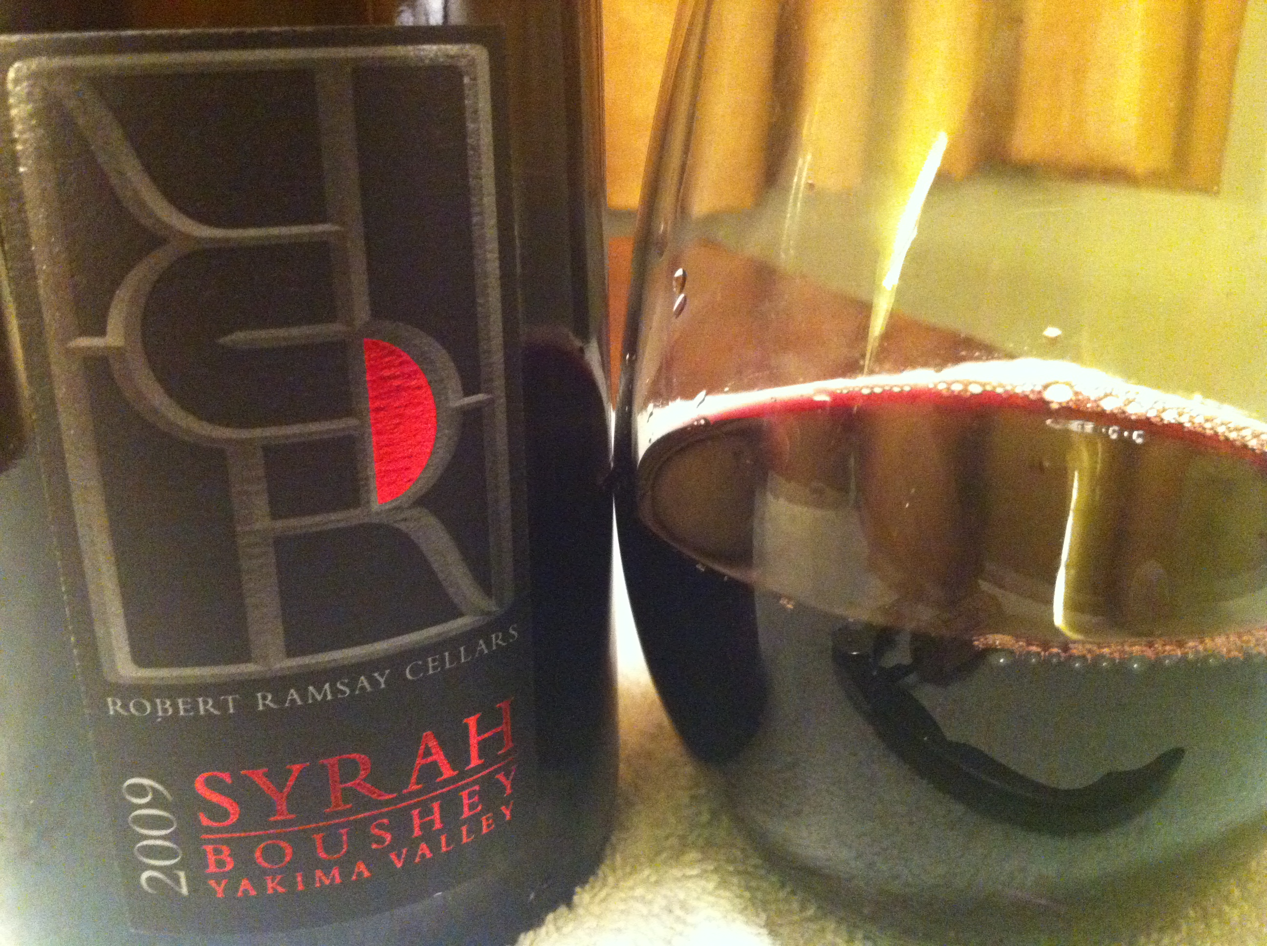 Washington Syrah wine from Robert Ramsay Cellars made from grapes grown in Boushey vineyards